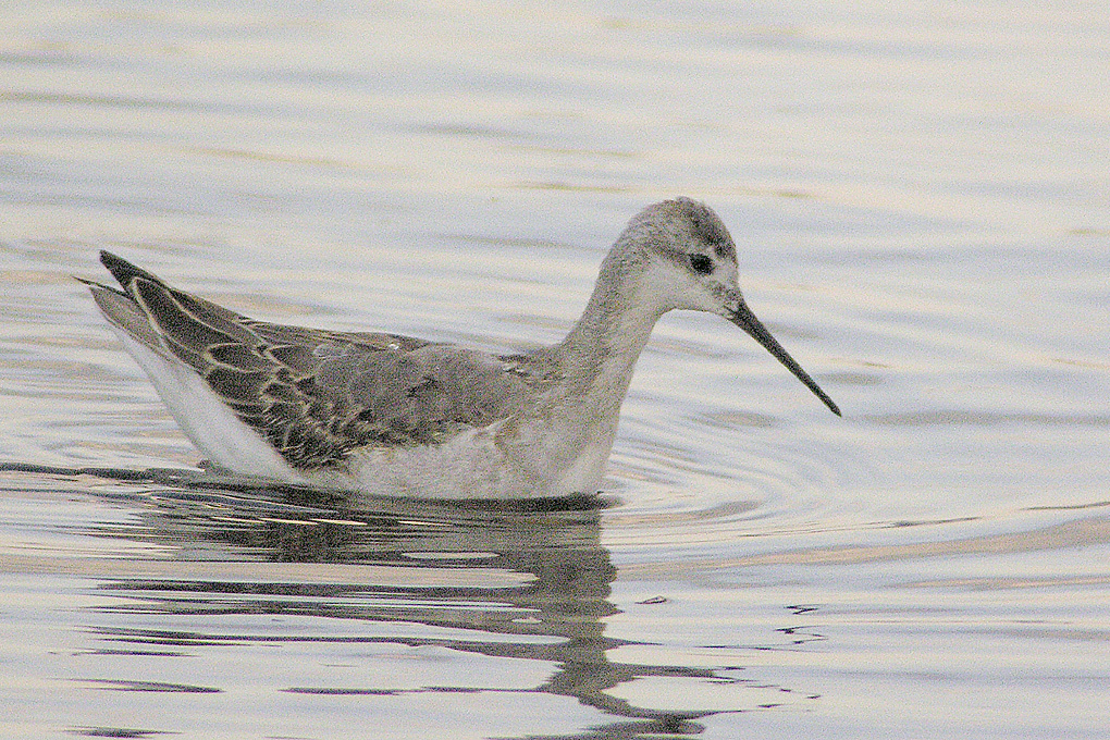 Wilson's Phalarope (Phalaropus tricolor). If you visit Yosemite you should take the time to drive over Tioga Pass to explore Mono Lake. From mid-July to September you'll see great numbers of Phalaropes, both Red-necked and Wilson's, stopping here to fatten up for trip south. Mono Lake is teeming with Brine Shrimp and Brine Flies. In September and October the phalaropes will be replaced by over 1,000,000 Eared Grebes. Wilson's Phalarope is larger, and sports a long thin bill and rather plain back in alternate plumage.